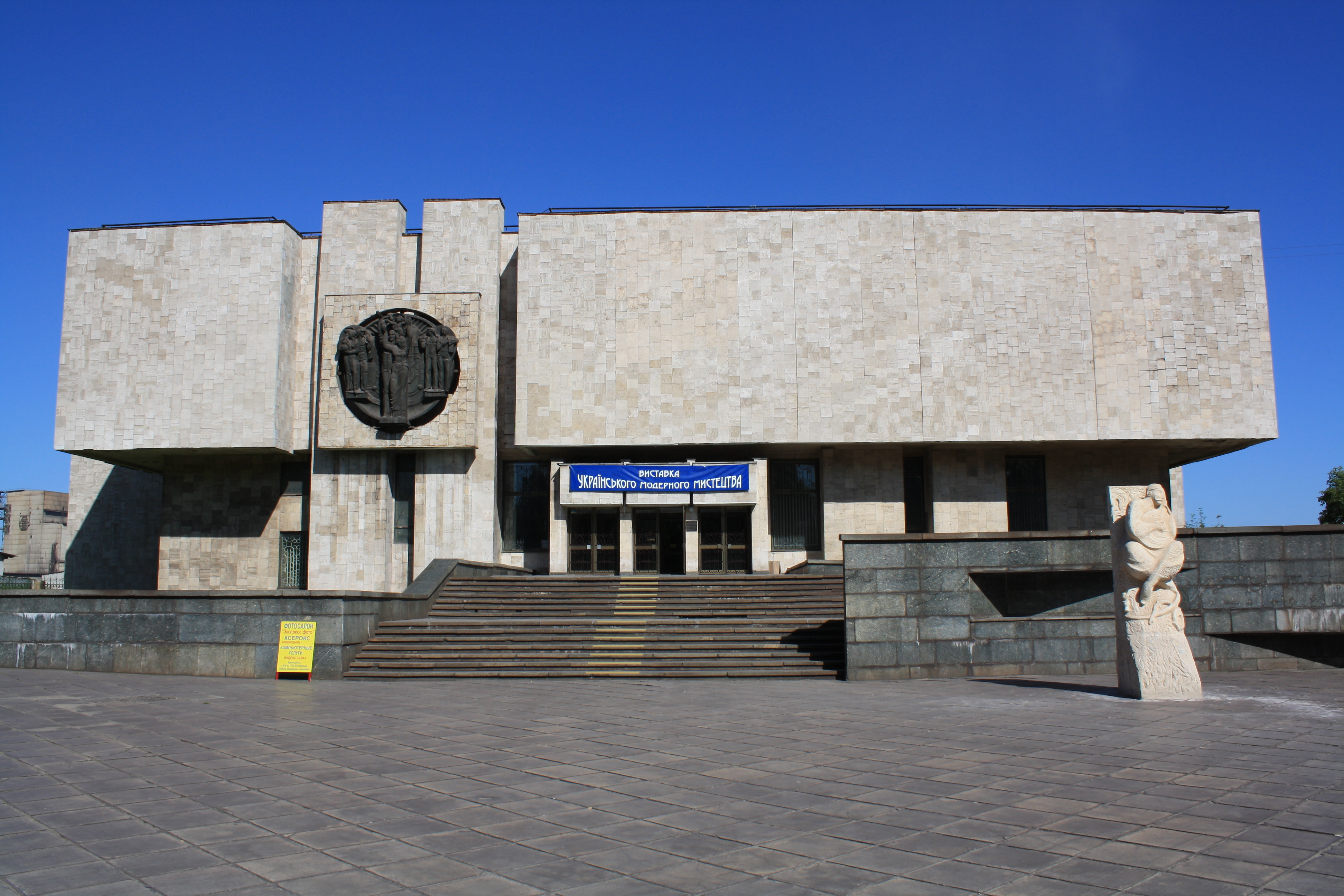 Building of city Museum, Dniprodzerzhynsk